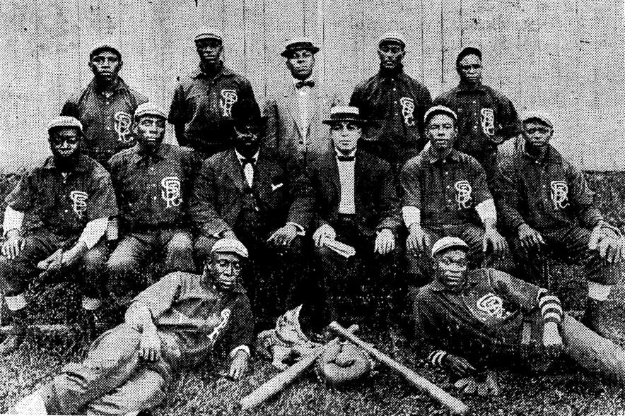 St. Paul Colored Gophers of 1907. Top Row, Jesse Shaeffer, Catcher; Sammie Ransome, 2nd Baseman; Irving Williams, Secretary; Sherman Barton, Center Fielder; Frank Davis, Shortstop; Middle Row, Willis Jones, Left Fielder; George Taylor, 1st Baseman and Captain; P.E. Reid, President and Manager; J.J. Hirshfield, Treasurer; Johnny Davis, Pitcher; Thomas Means, Pitcher; Bottom Row, Fred Roberts, 3rd Baseman; Clarence Lytle, Right Field and Pitcher.